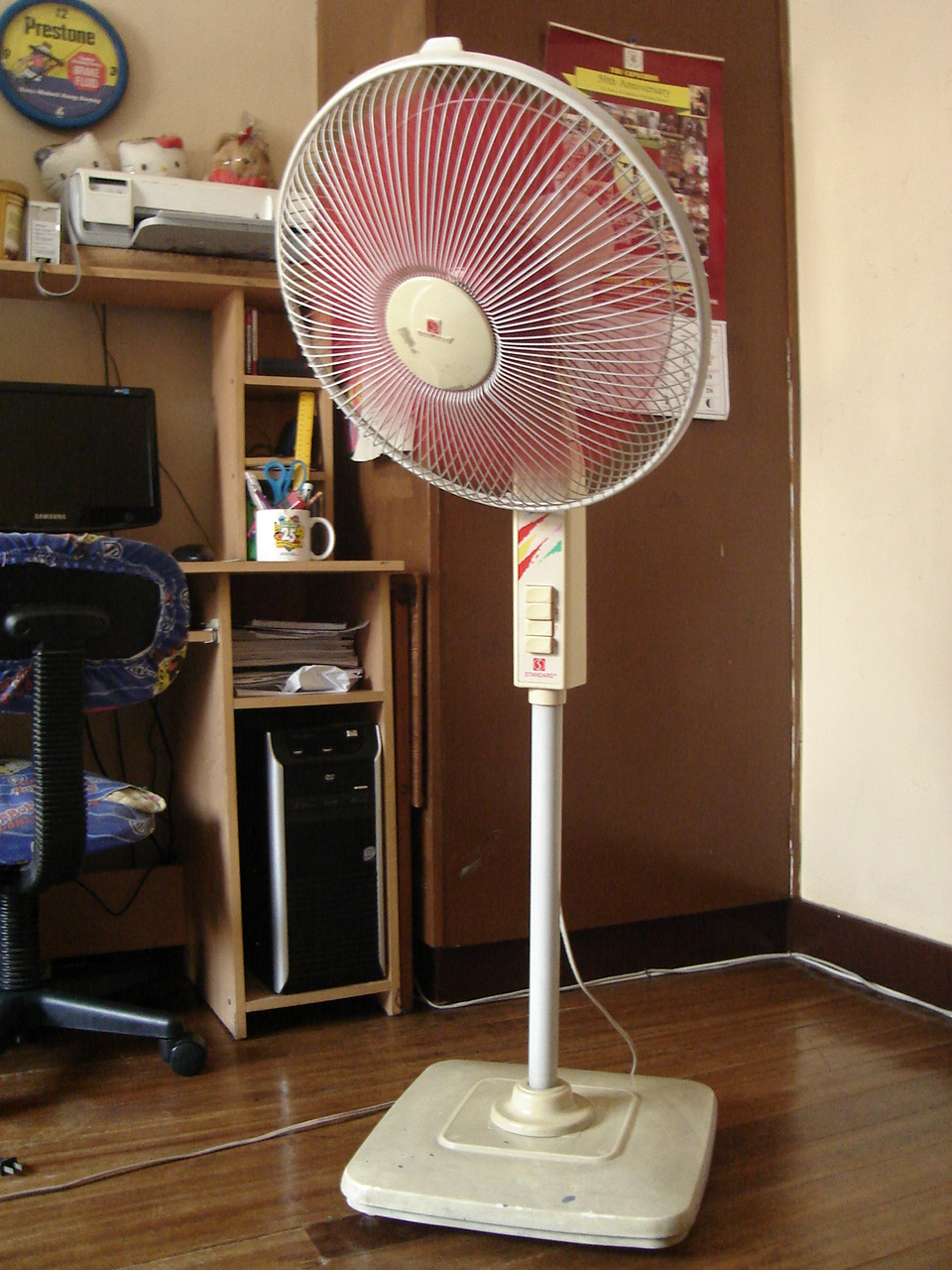 on electric fan